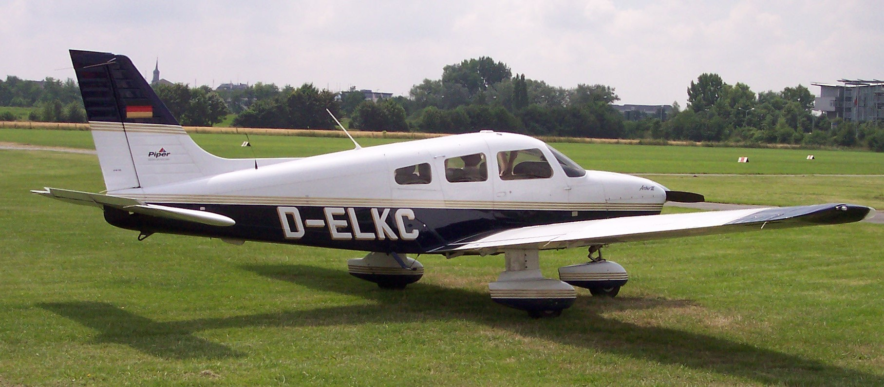 A Piper PA-28-181 Cherockee Archer III, immatriculated D-ELKC.